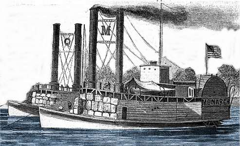 (altered & coorized) Commons:Category:Ships Commons:Category:Drawings Commons:Category:1862